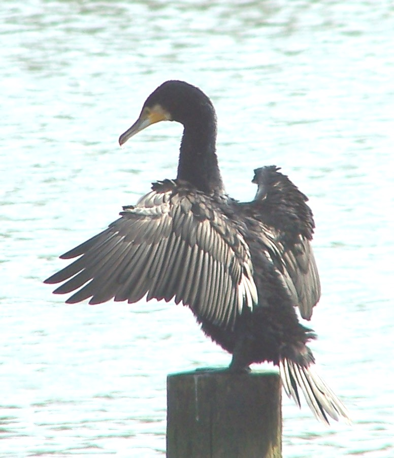 Great Cormorant Phalacrocorax carbo, Tokyo, Japan